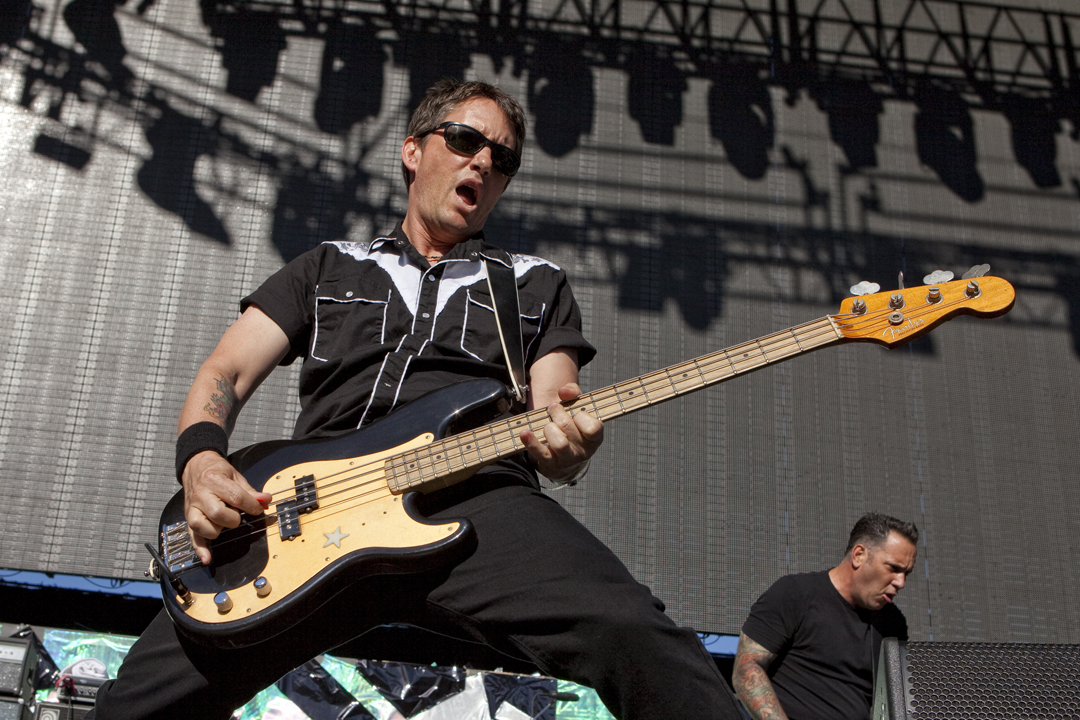 Scott Shiflett performing at the KROQ Weenie Roast Verizon Wireless Amphitheater Irvine, CA 2011